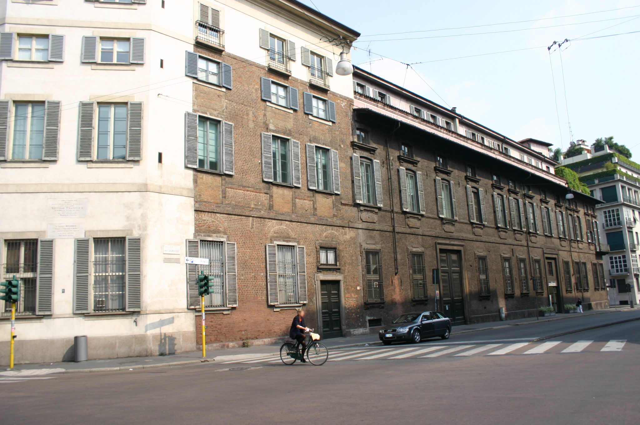 The 17th century baroque palace, along via San Samiano street, made in 1793 into a part of Palazzo Serbelloni, in Milan, Italy. Picture by Giovanni Dall'Orto, April 25 2007.